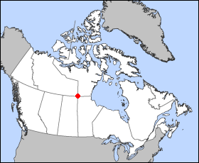 A map of Canada, with the theoretical intersection of the Manitoba, Saskatchewan, Northwest Territories, and Nunavut borders, highlighted.